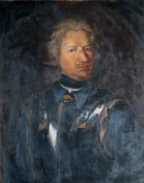 Swedish cavalry commander, Carl Gustaf Creutz.